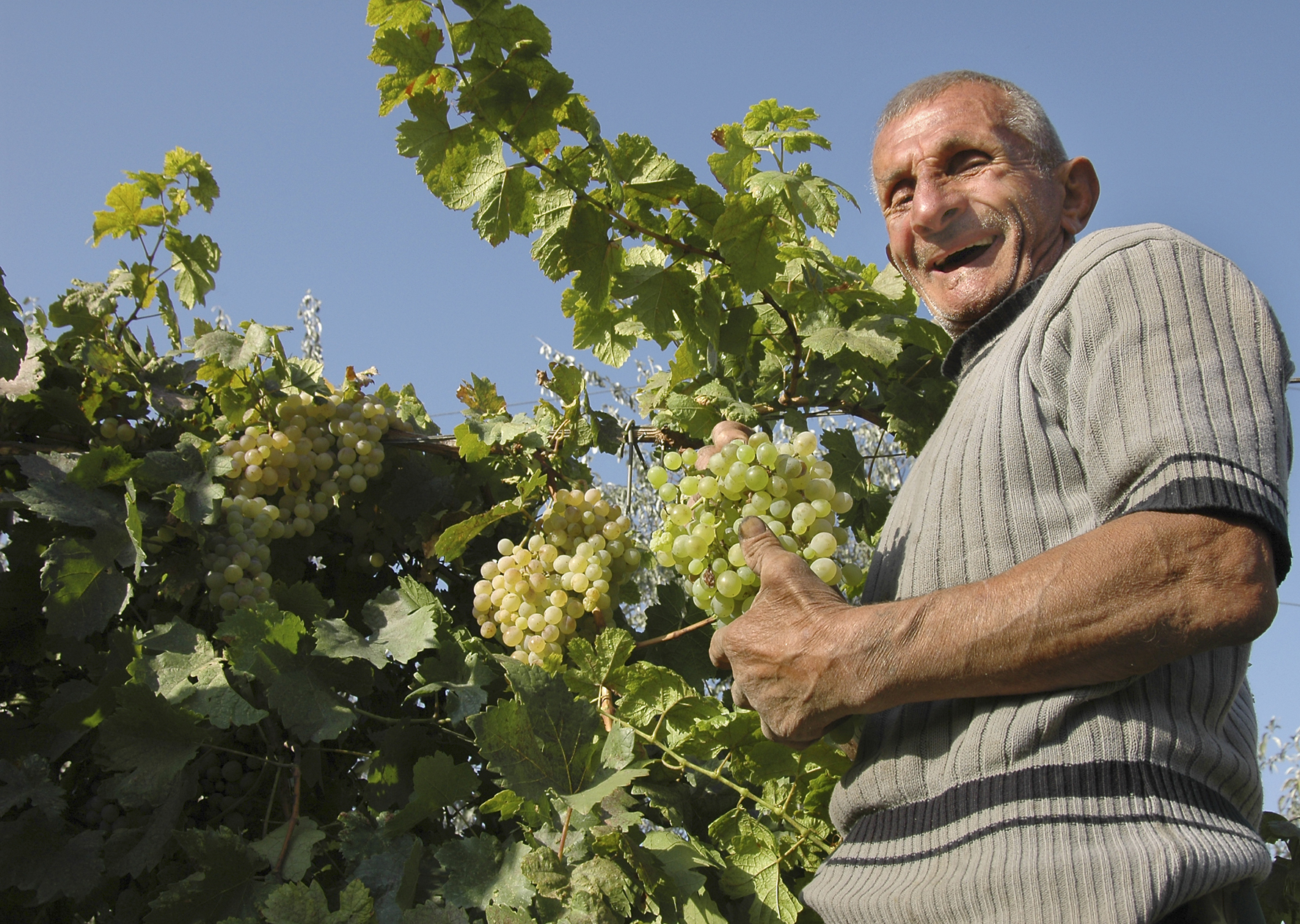 Armenian grandpa showing his grapes.